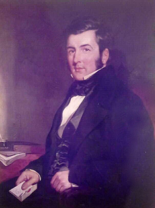 Portrait of Henry Overton Wills II (1800-1871)